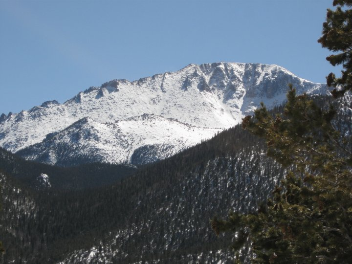 Pikes Peak summit in Colorado, March 2010.